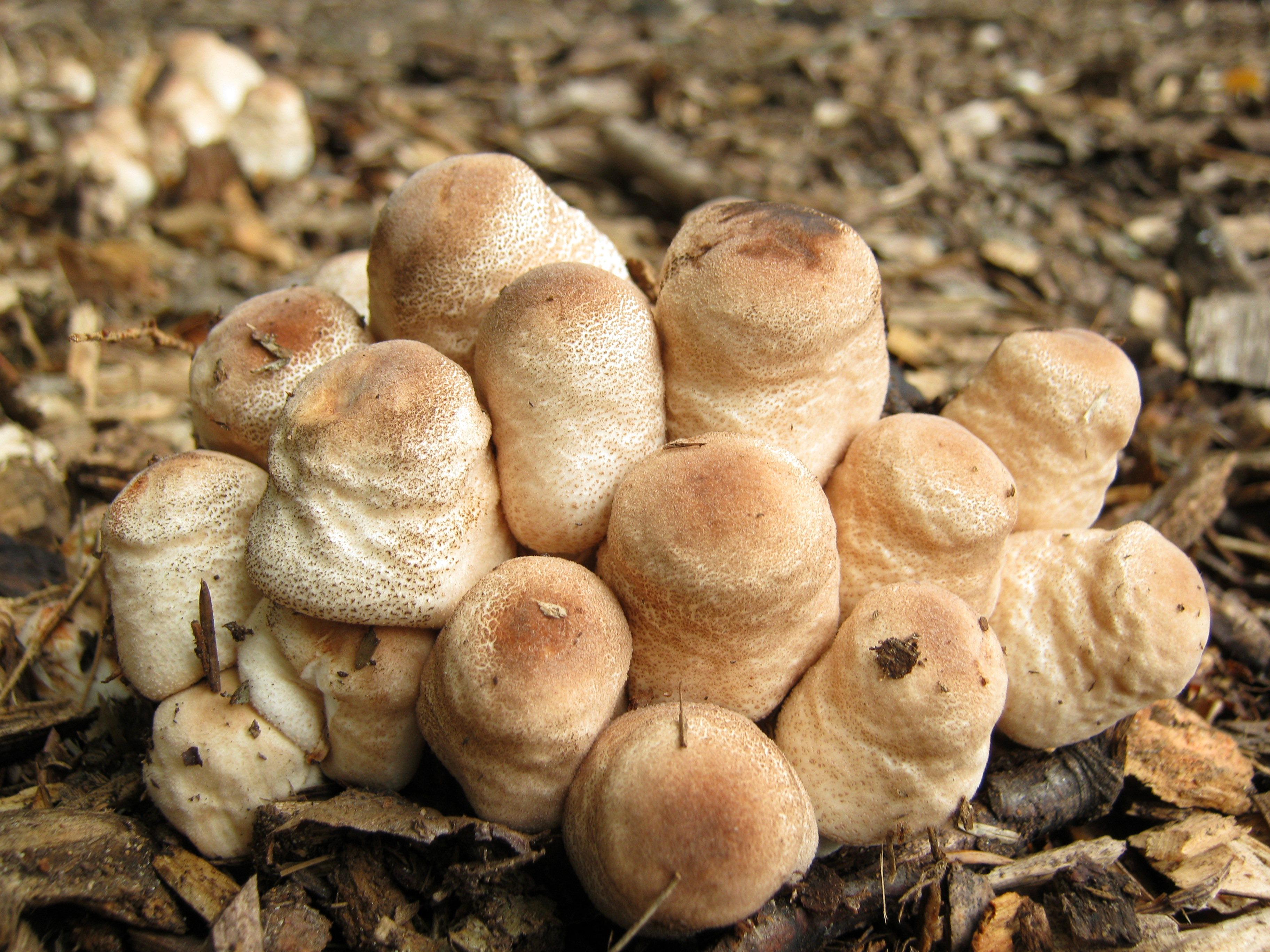 Leucoagaricus meleagris (Sowerby) Singer